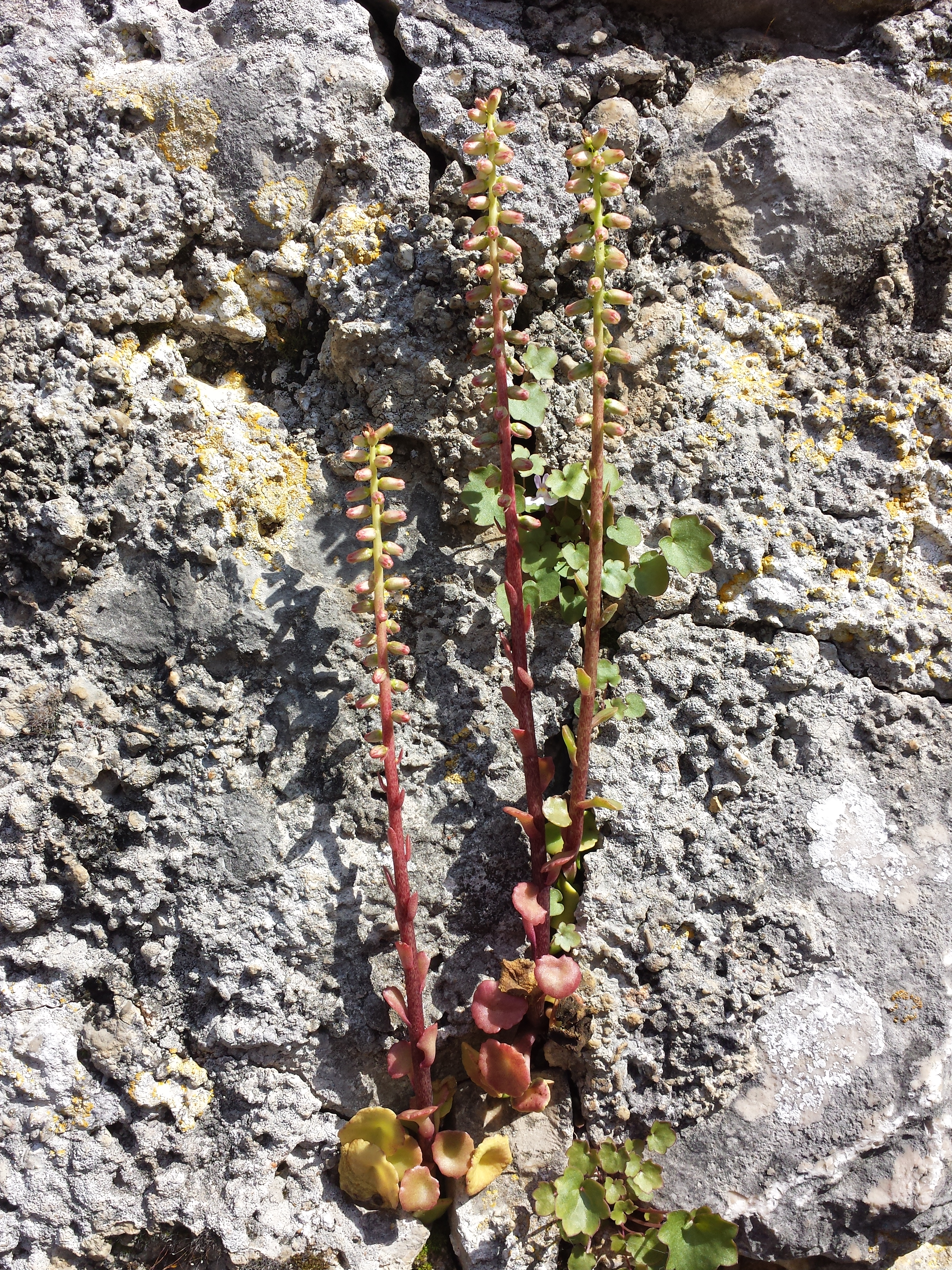 Habitus Taxonym: Umbilicus horizontalis ss Rottensteiner: Exkursionsflora für Istrien ISBN 978-3-85328-067-6 Location: Porat, Krk, County Primorje-Gorski kotar, Croatia Habitat: stone wall